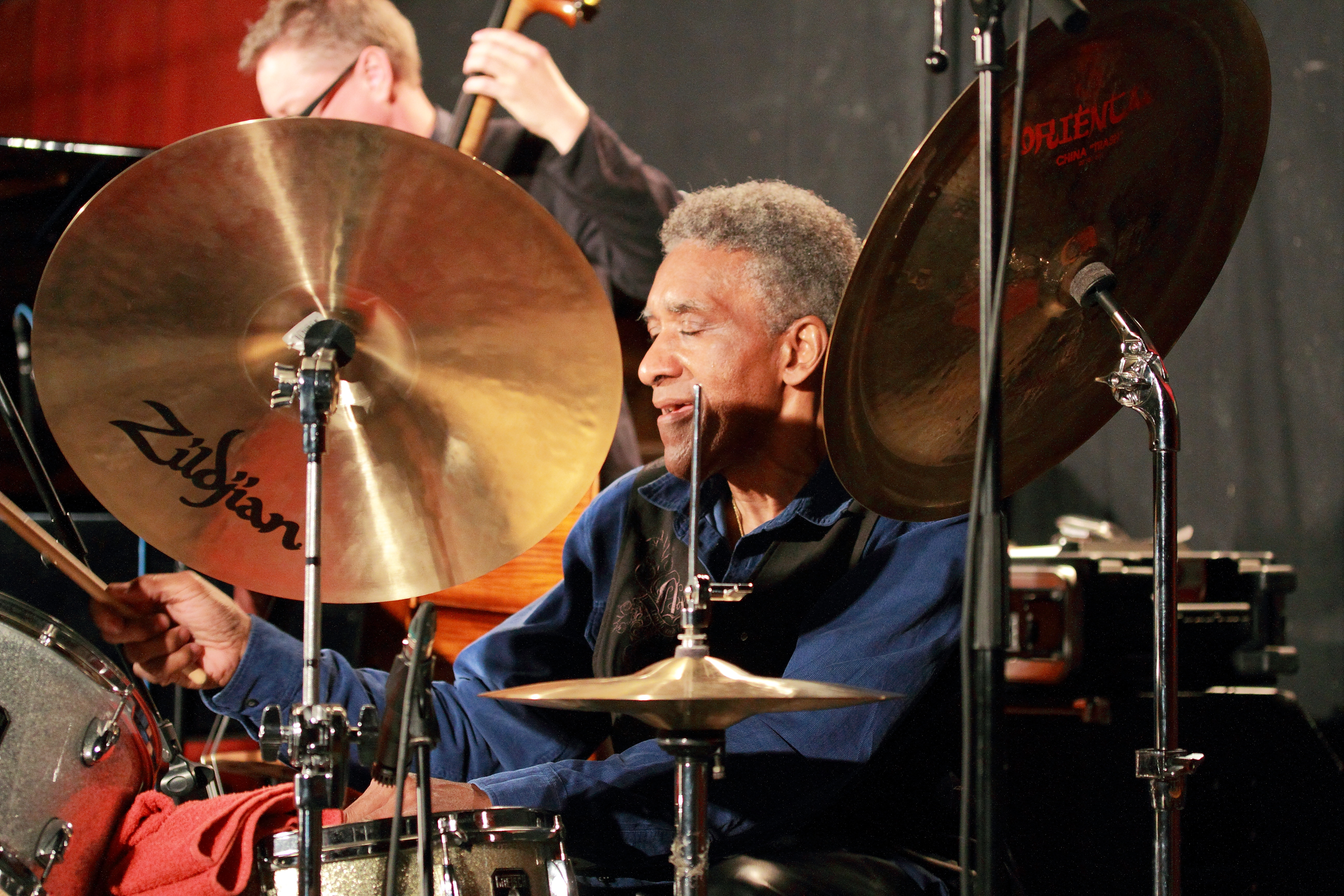 The Al Foster Quartet at INNtöne Jazzfestival 2016.